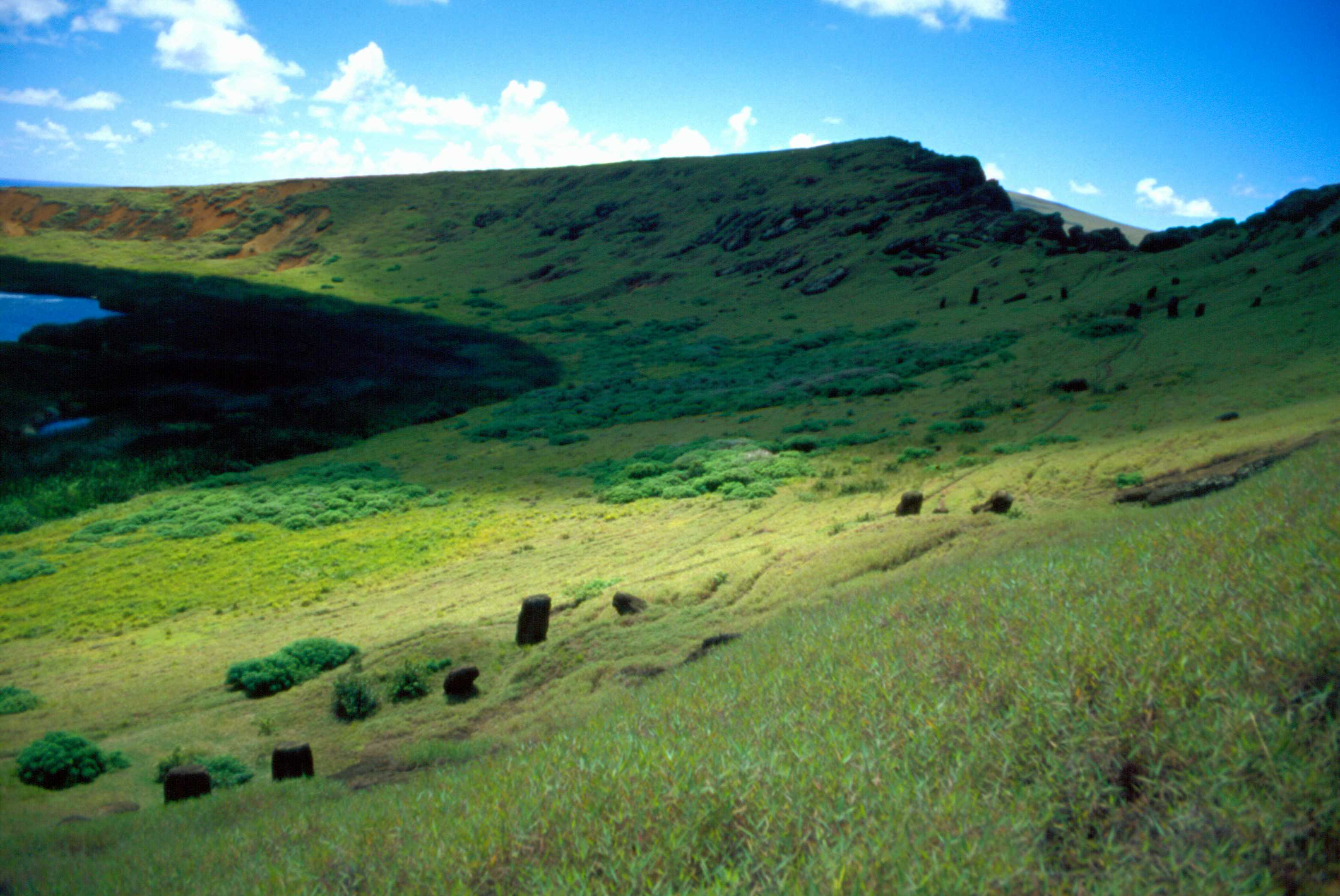 Caldera of Ranu Raraku volcano, Easter Island